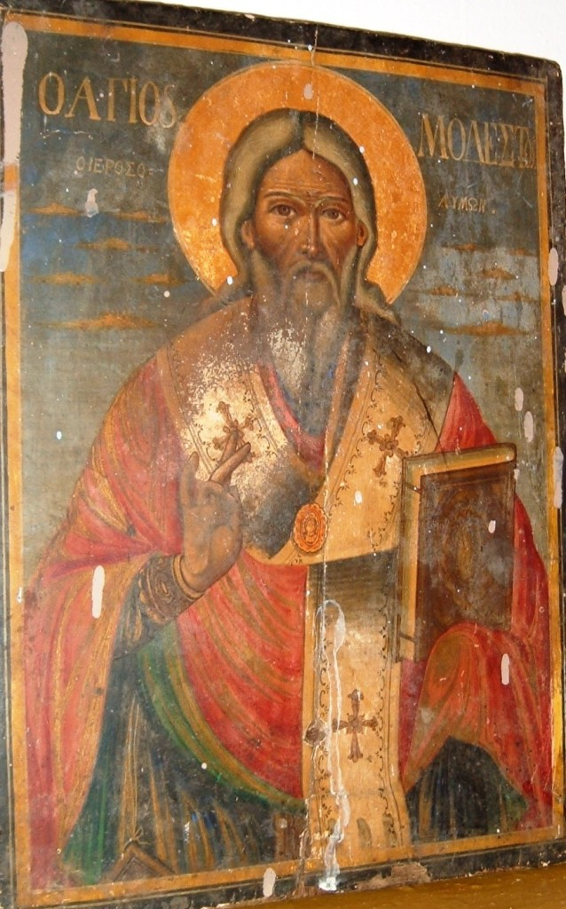 Icon of Saint Modest in Melisotopos (Olishta).